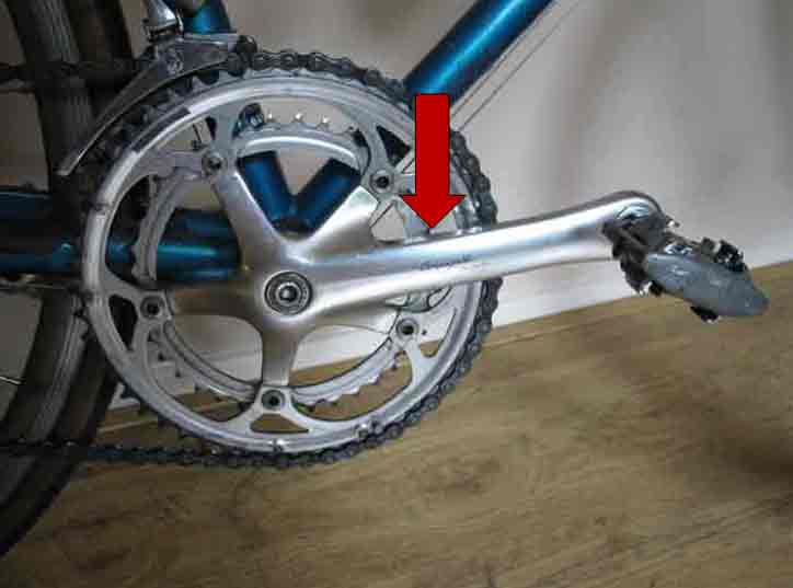 crank as a part of a bycicle